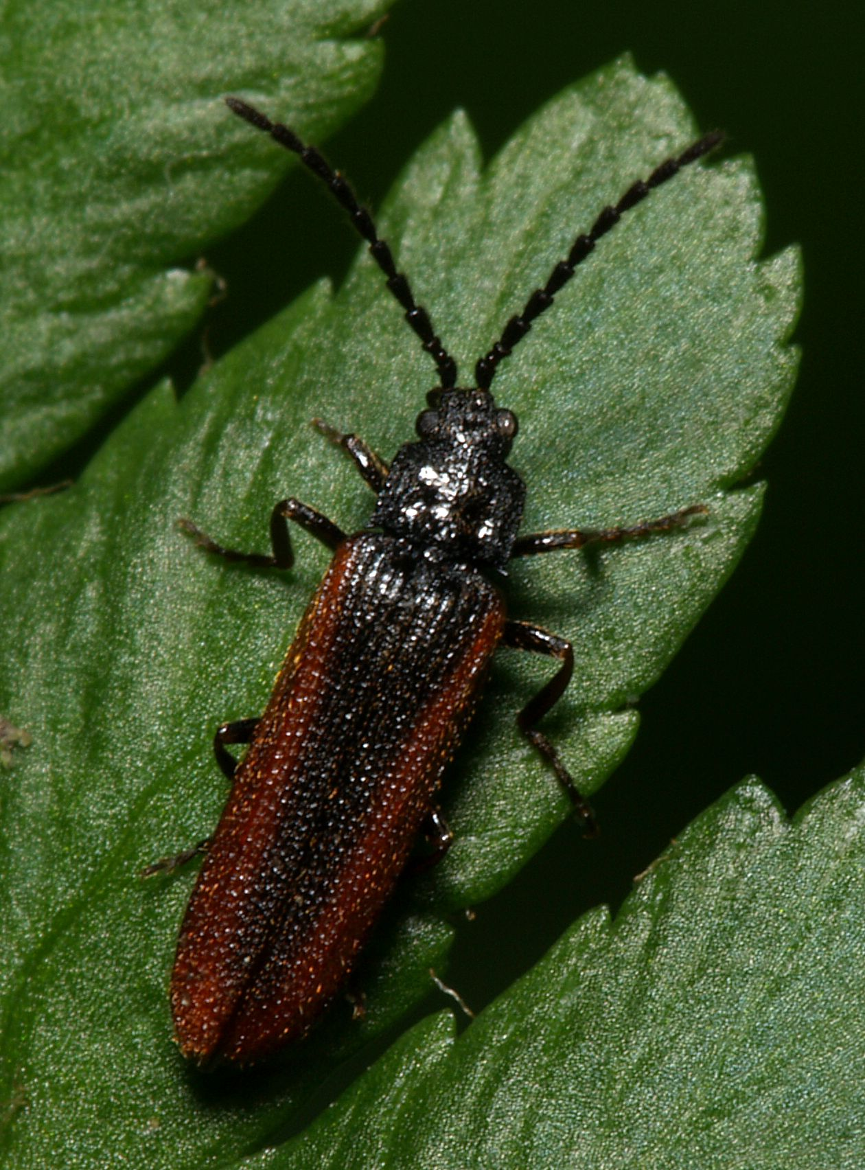 Omalisus fontisbellaquaei from "Königsforst" nature reserve in Cologne, Germany.